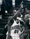 University of Nevada, Las Vegas (UNLV) freshman basketball player Stacey Augmon guarding an opponent during a December 29, 1987 home game against Louisiana State University.